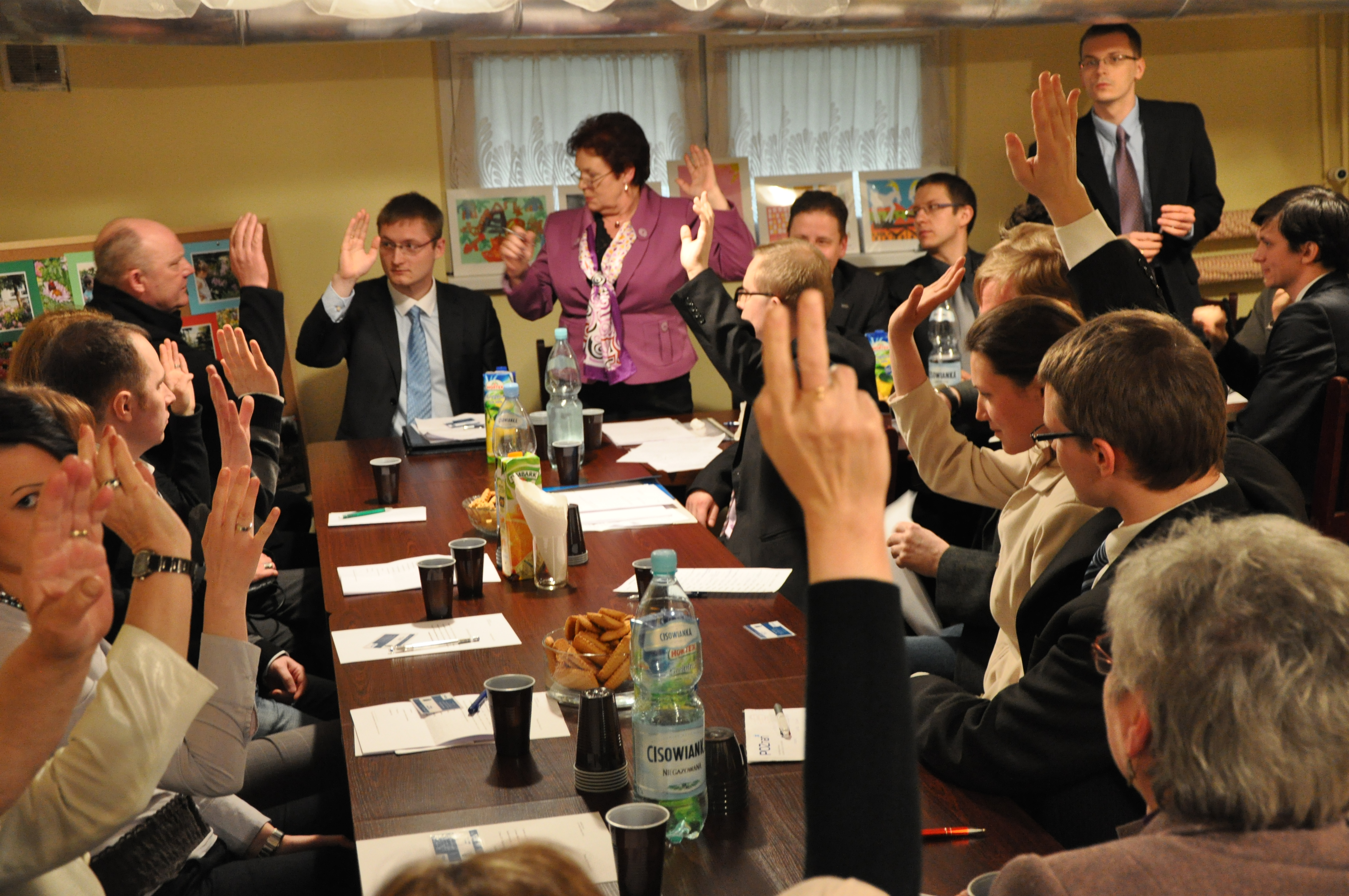 Borough Council of Piątkowo, Poznań, Poland